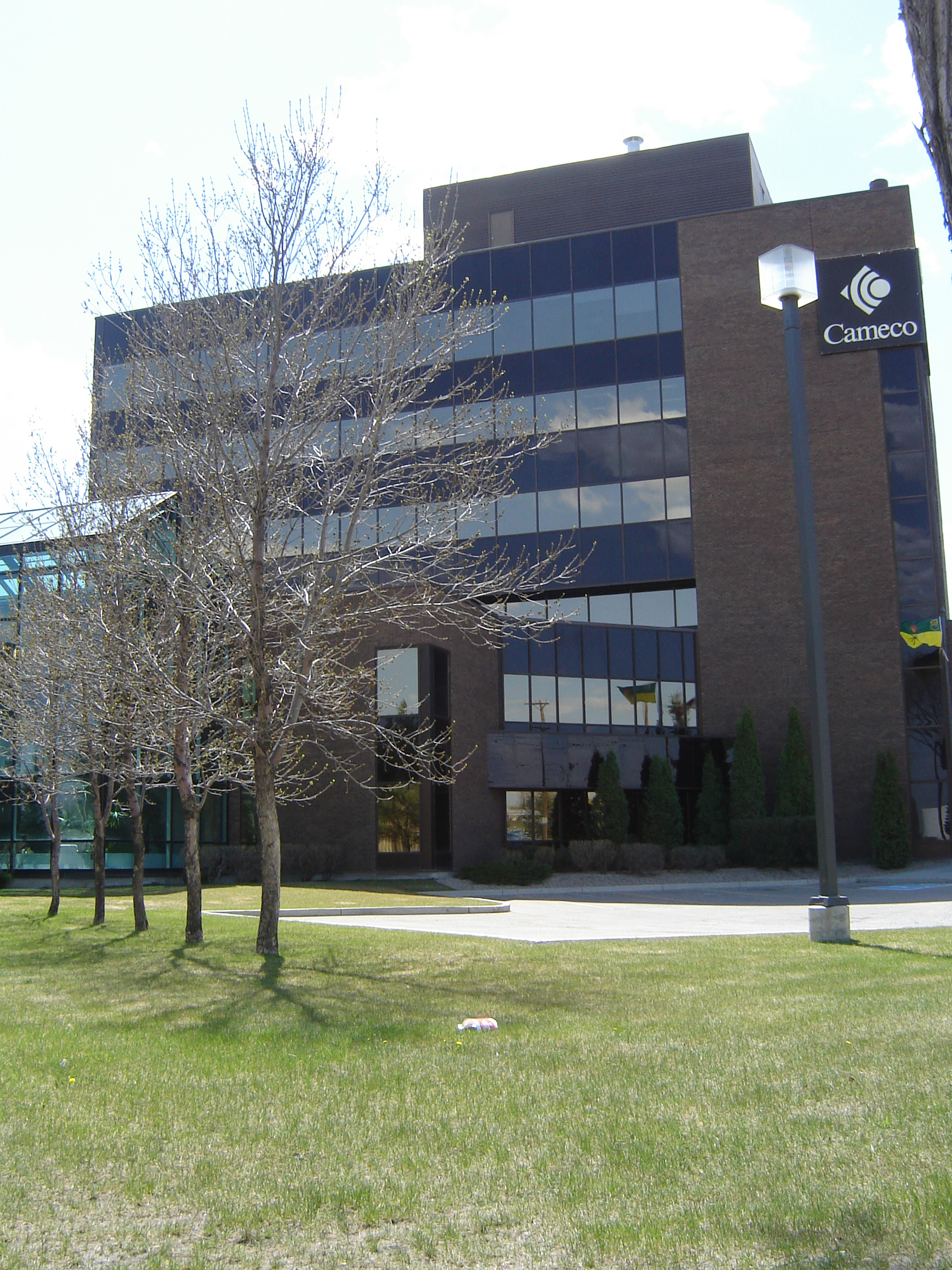 Cameco Corporation --- Uranium - Fuel - Electricity - Mining ...West Industrial Saskatoon, Saskatchewan, Canada